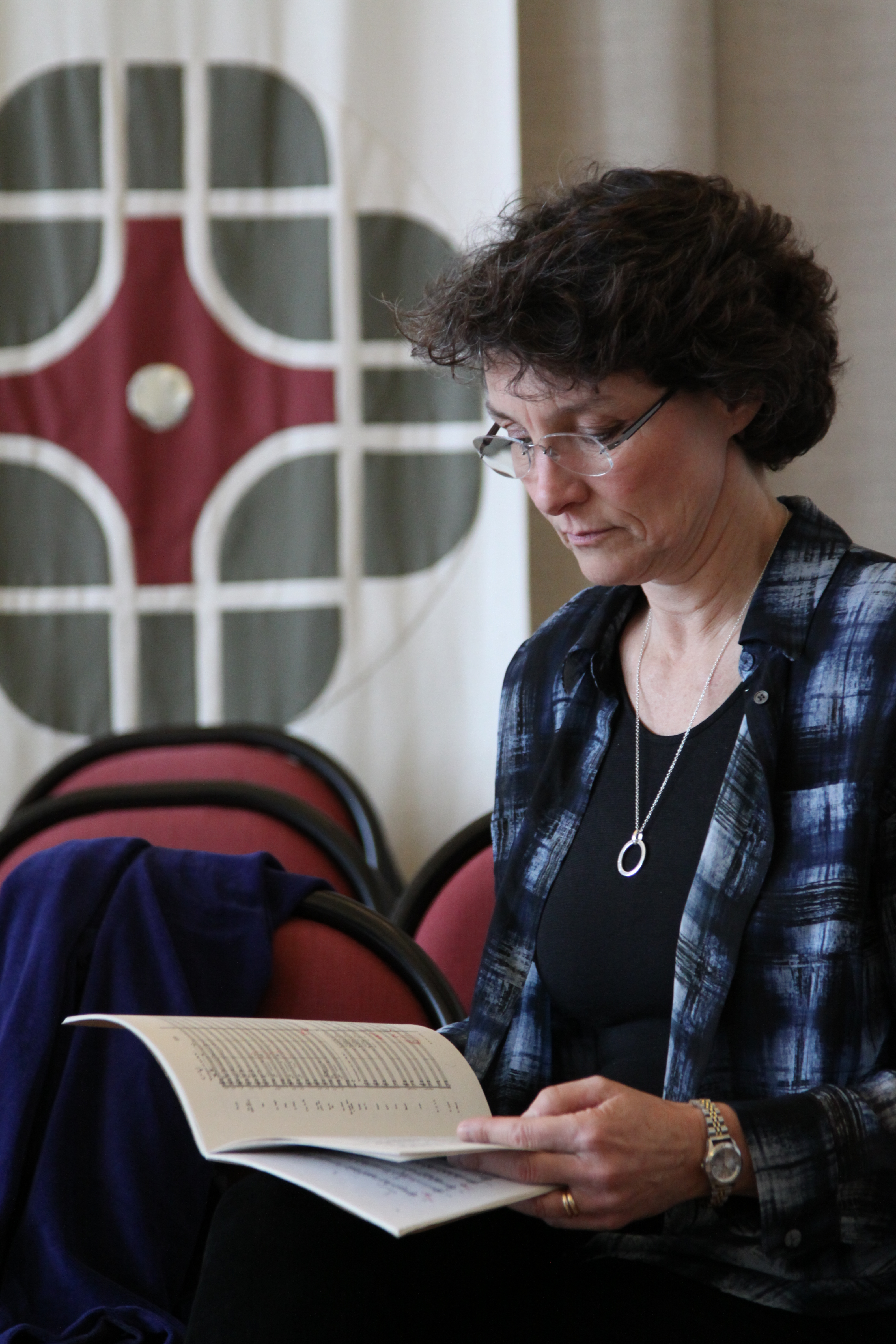 Cecilia Rydinger Alin